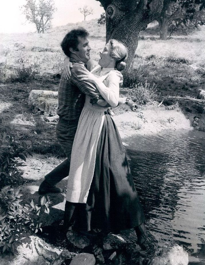 Gil Gerard and Karen Grassle in Little House on the Prairie (1977)